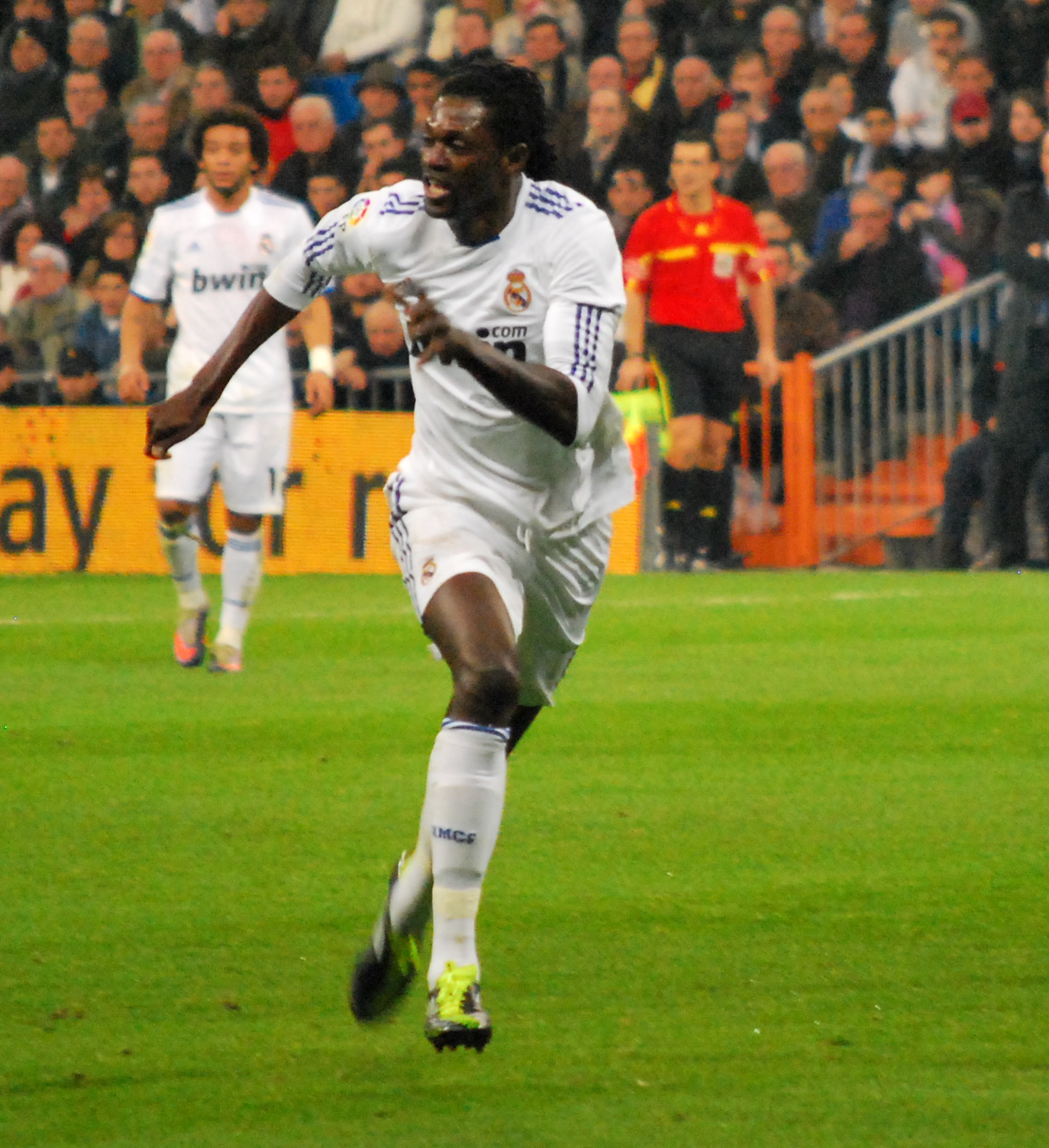 First Match Emmanuel Adebayor "La Liga" Real Madrid 4 - Real Sociedad 1